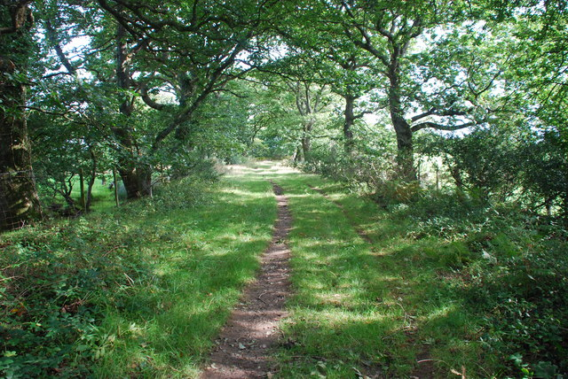 Y Lôn Goed. See 955219